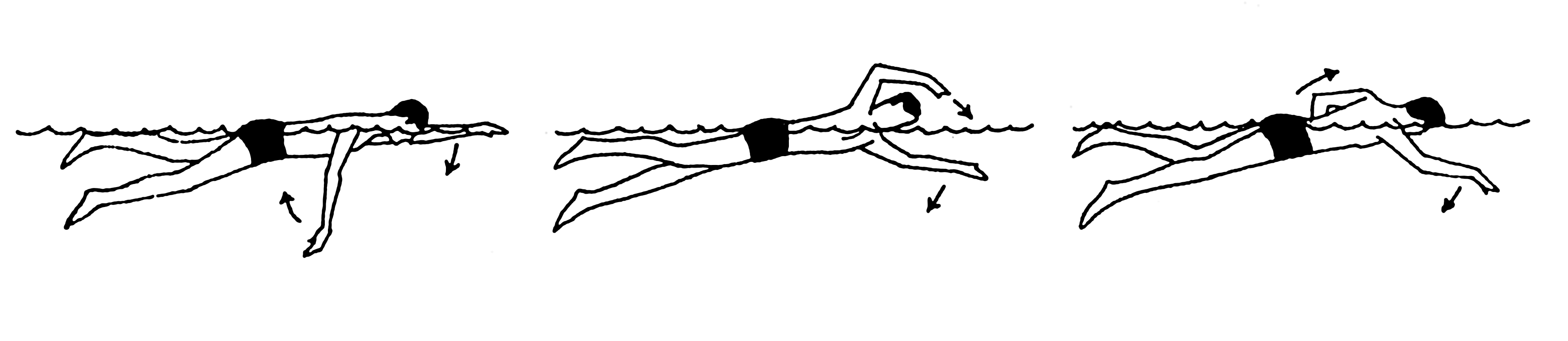 Line art diagram of a swimmer performing the front crawl